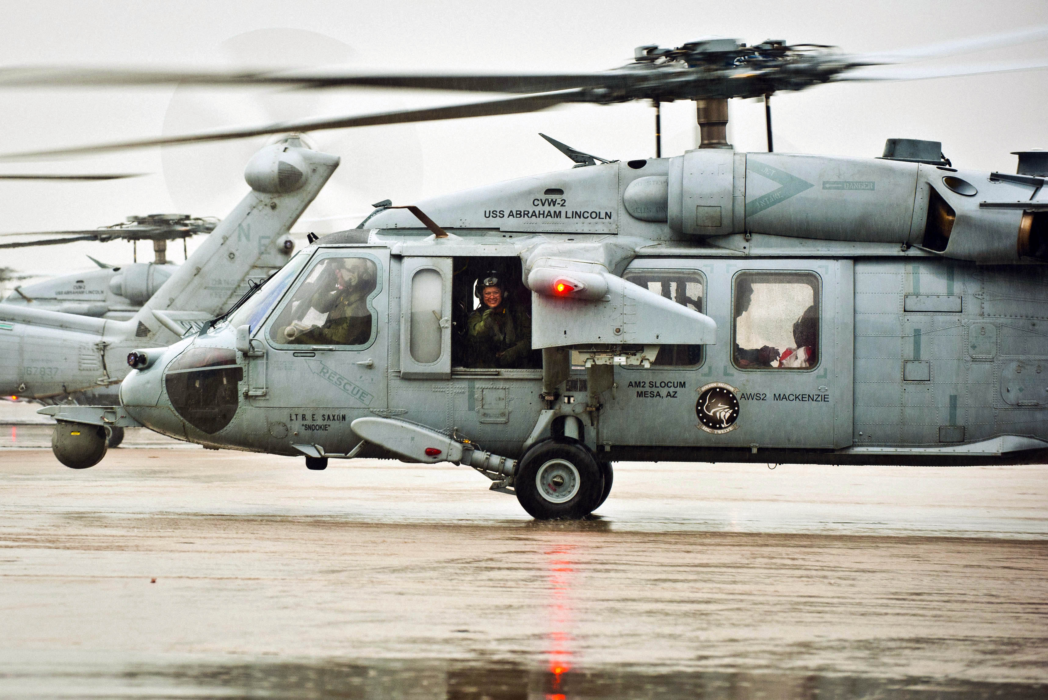 SAN DIEGO (Dec. 12, 2011) A Naval air crewman, assigned to Helicopter Sea Combat Squadron (HSC) 12, waves farewell to her family at Naval Air Station North Island, before departing for the Nimitz-class aircraft carrier USS Abraham Lincoln (CVN 72). HSC-12 will embark aboard the Lincoln for deployment to the U.S. 5th and 7th areas of responsibility. (U.S. Navy photo by Mass Communication Specialist 2nd Class Wilyanna C. Harper/Released)